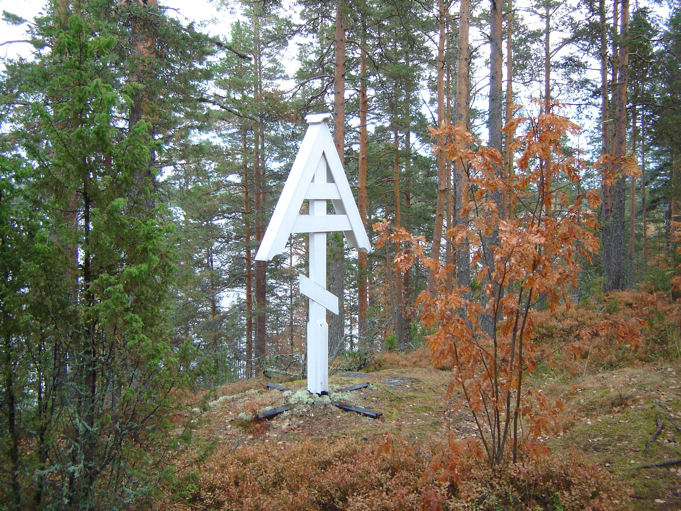 Orthodox road cross on the site of a historical orthodox village, Papinniemi, municipality of Parikkala, Finland